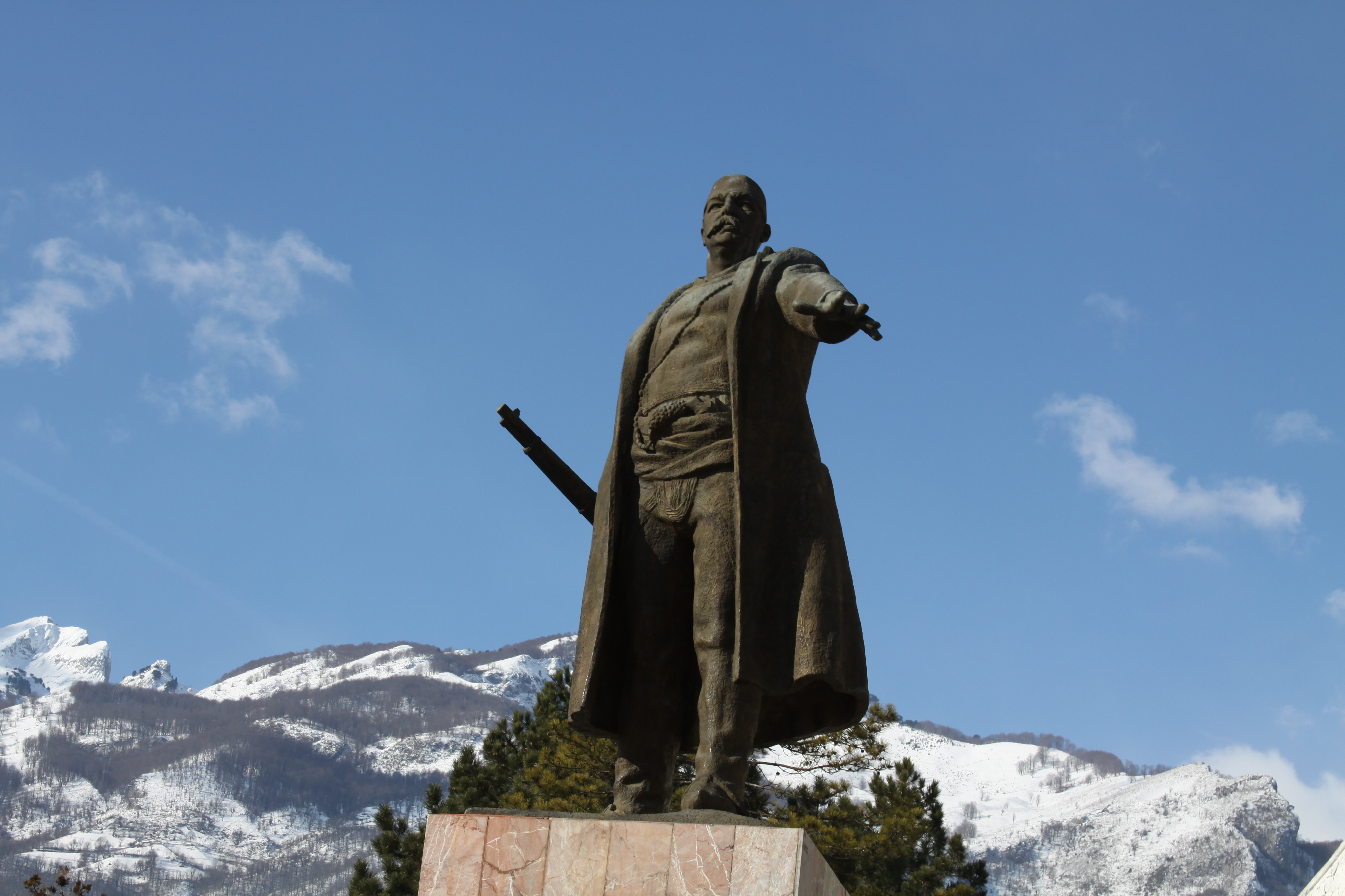 Busti i heroit kombetar Bajram Curri - emrin e te cilit mban qyteti